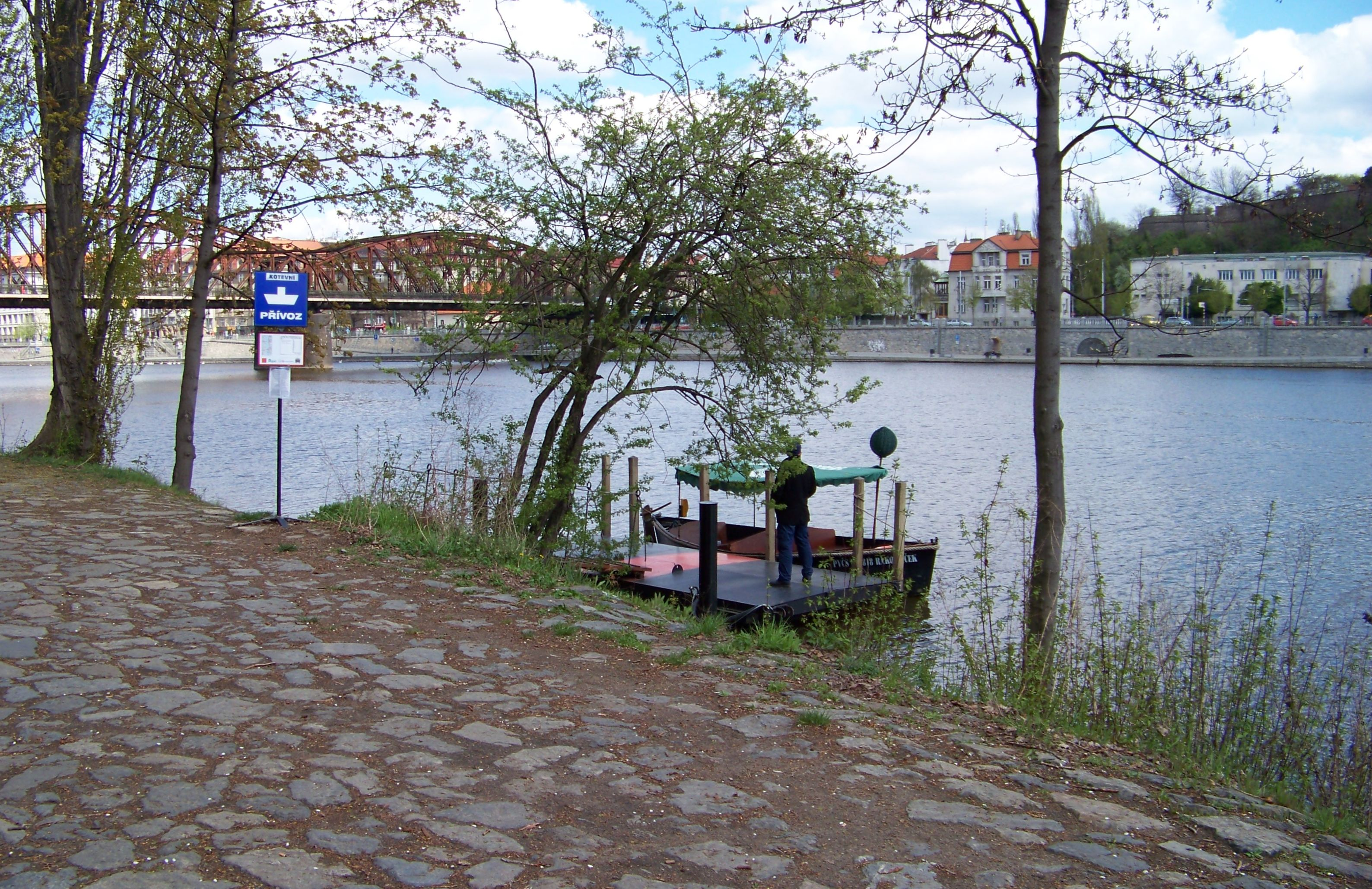 Prague-Smíchov, the Czech Republic. Ferry Kotevní - Výtoň, landing Kotevní, a ferry. - OpenStreetMap (Info)